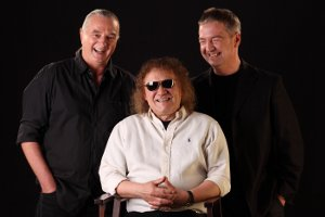 Tátrai Band is 20 years old